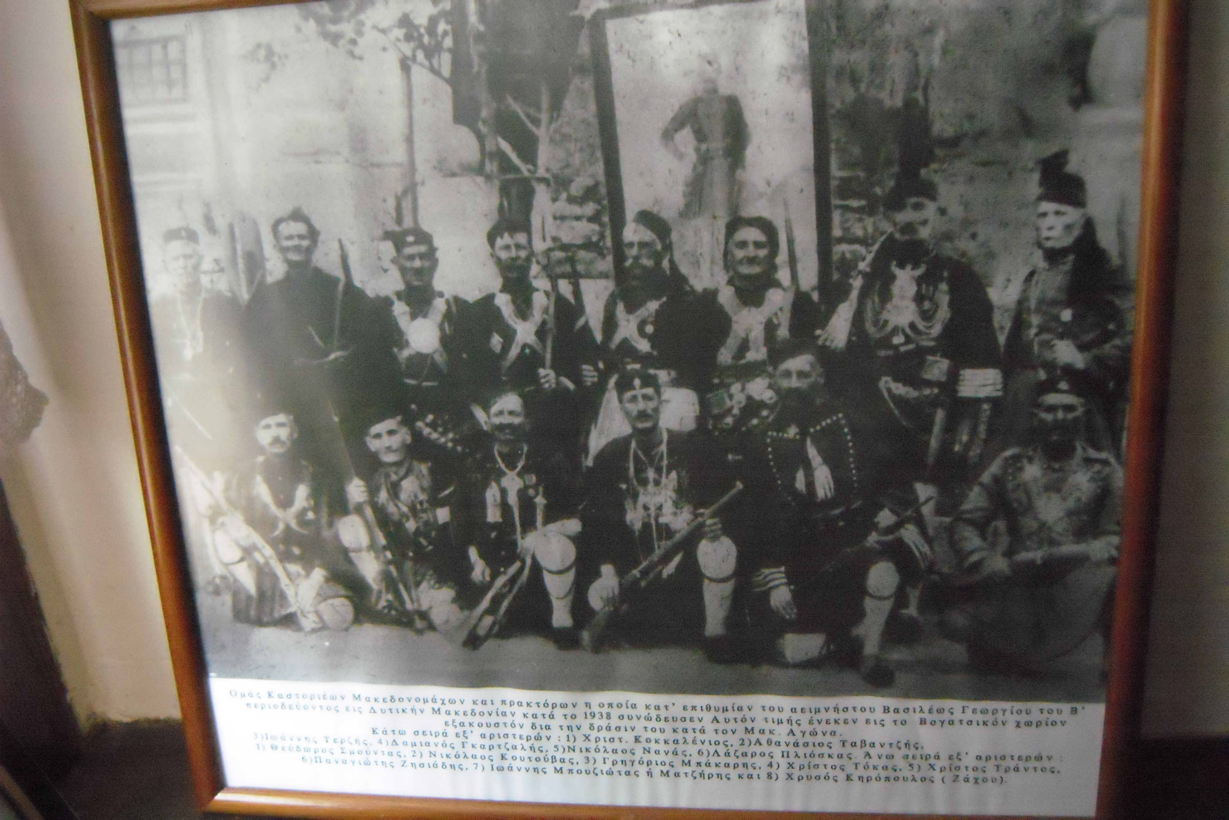 Makedonomahi from Kastoria